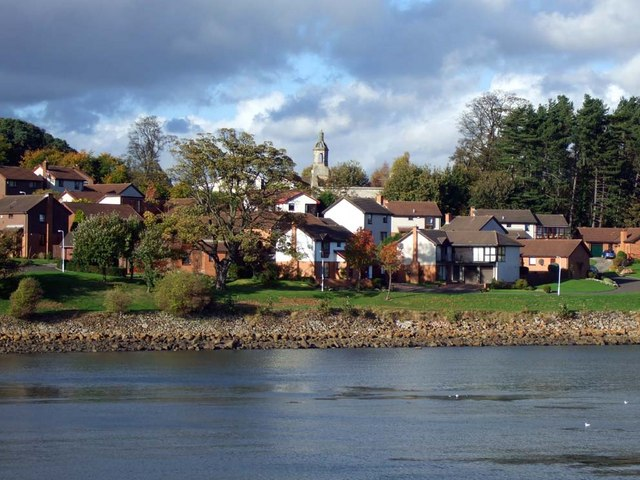 Earls of Moray Chapel The belltower of the chapel can just be seen amidst the housing.